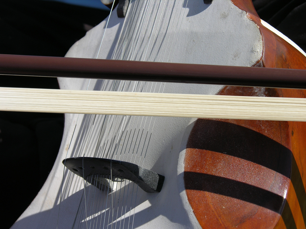 Dilruba detail.